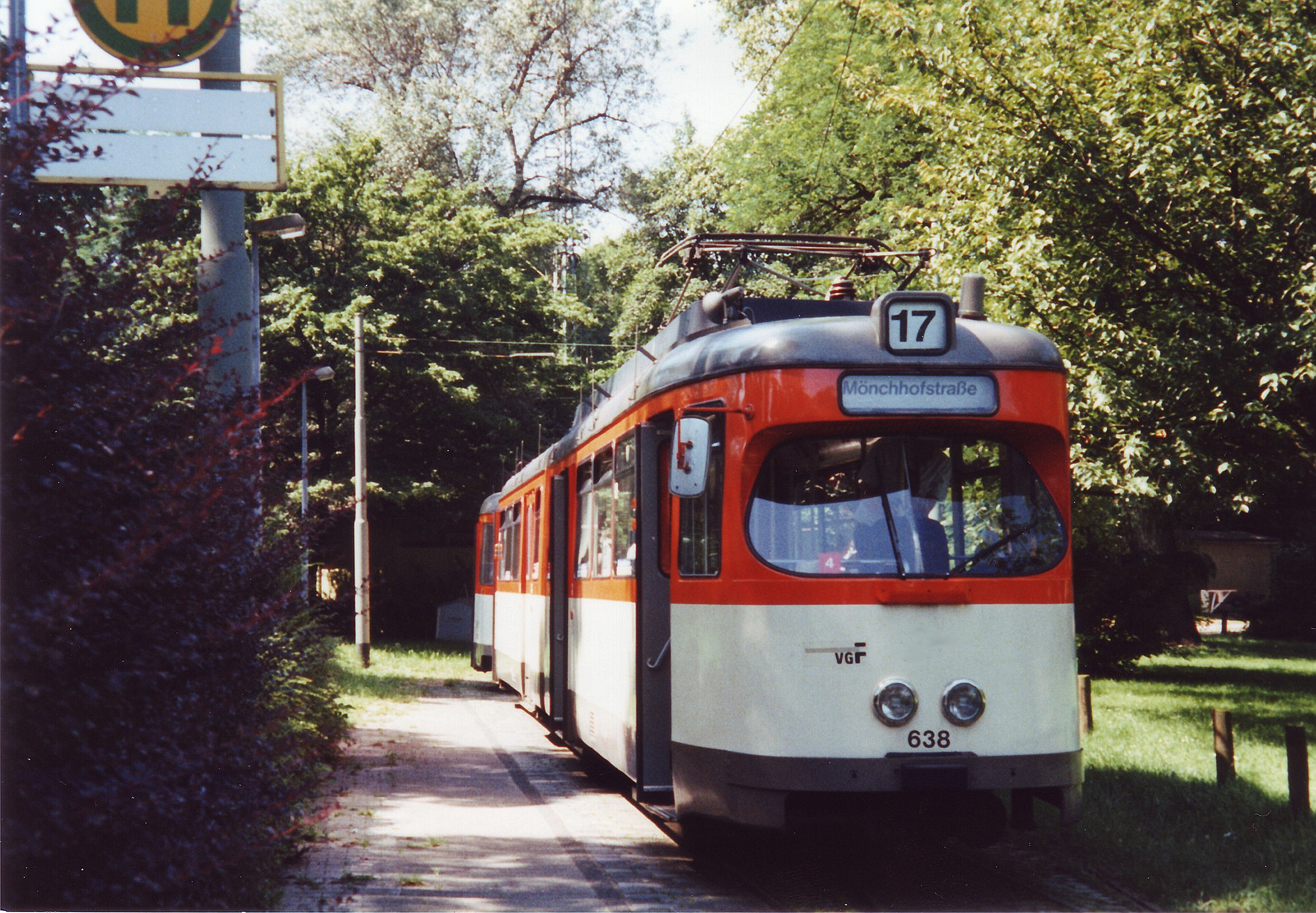 Tram railcar 638 of type M in the terminal loop in Frankfurt am Main-Niederrad in June 1998